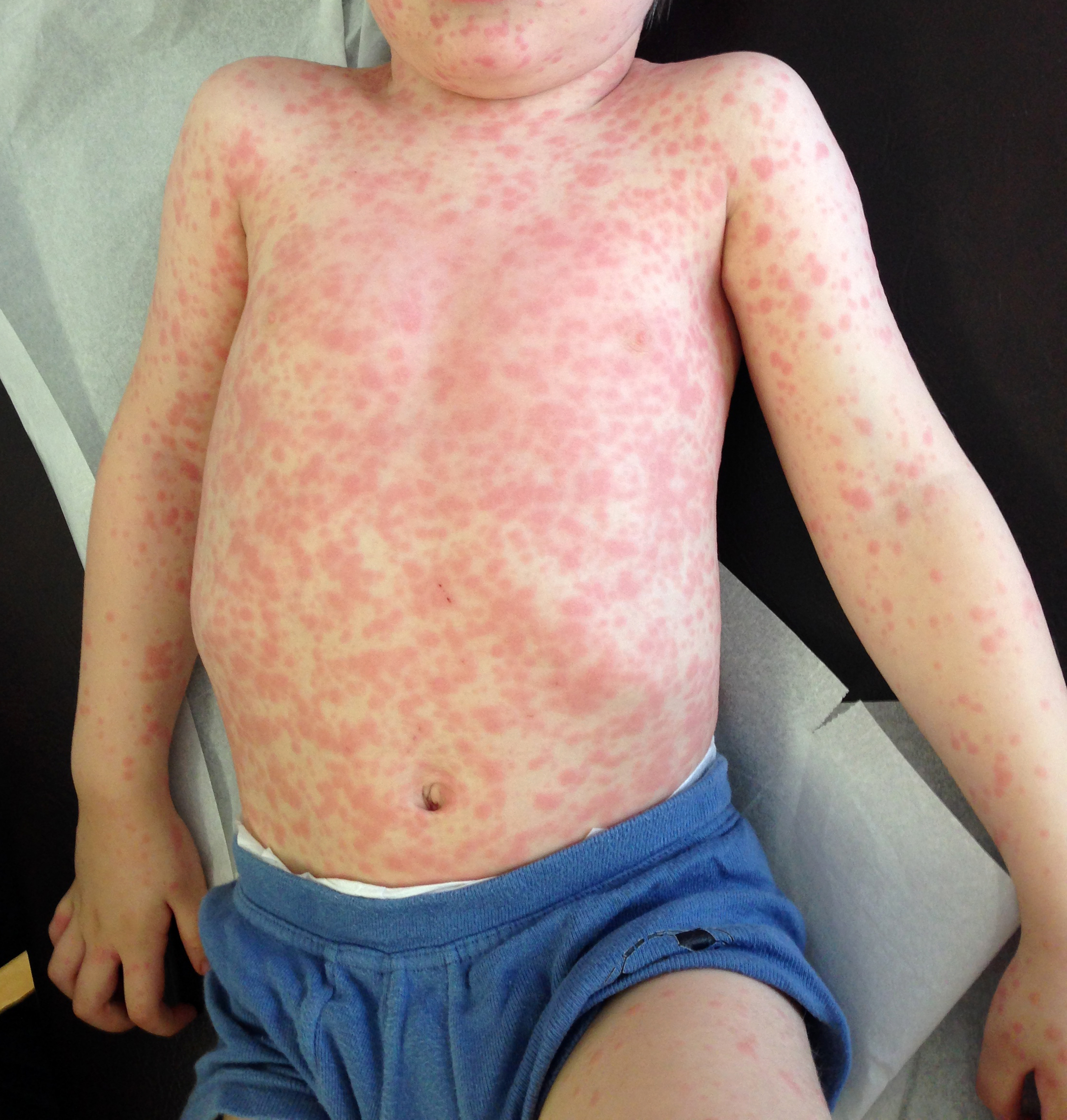 Allergic exanthema due to amoxicillin in a three years old child.